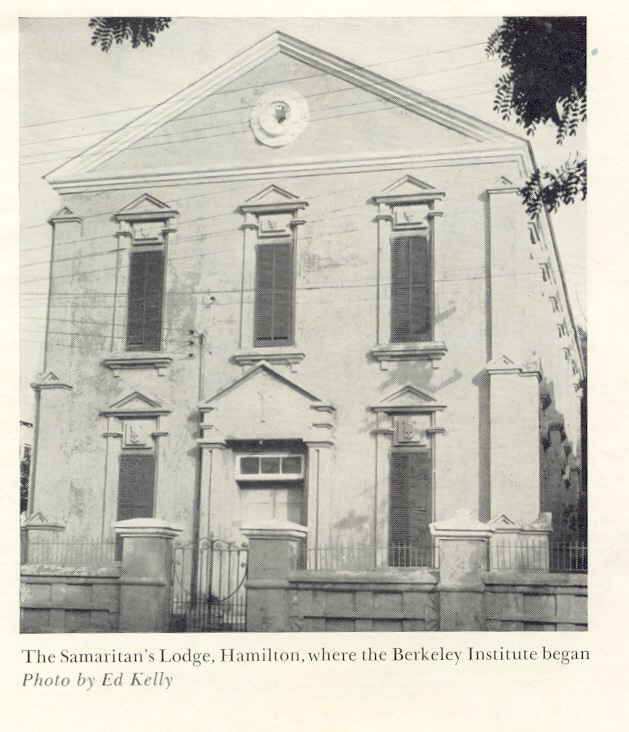 The Samaritan's Lodge, Hamilton, where the Berkeley Institute began. Photo by Ed Kelly